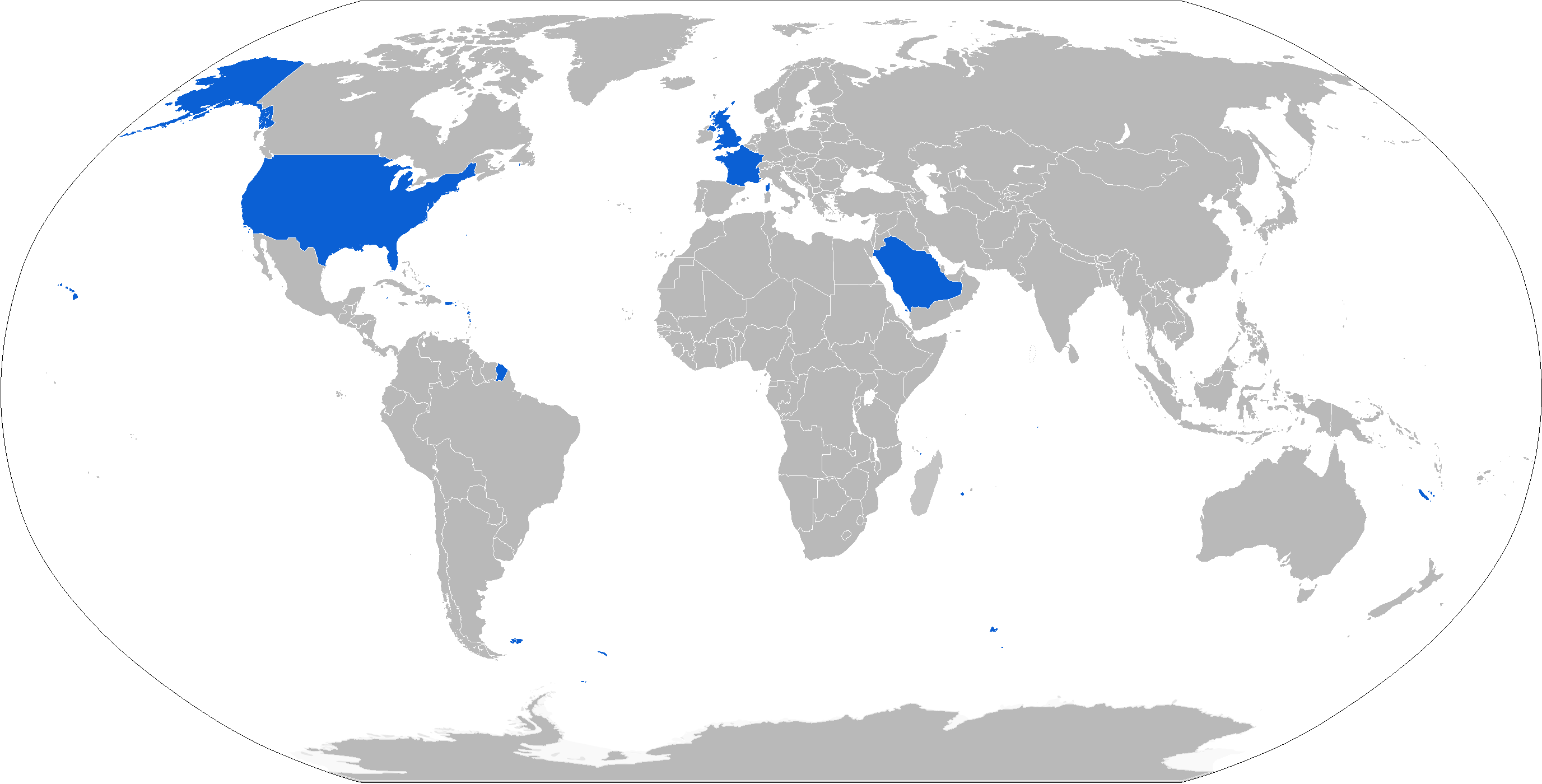 Map with E-3 operators in blue